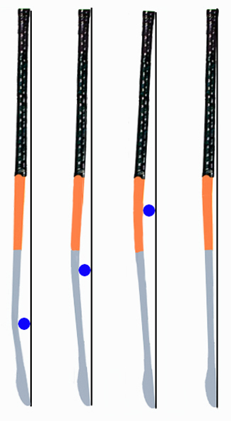 Diagram showing variation in position of stick bow in relation to variation in angle of presentation of stick head to ball.